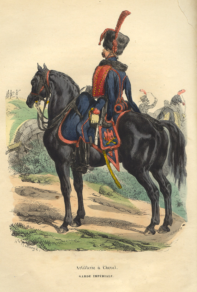 Horse artillerist from the Imperial Guard of the Grande Armée. From book of P.-M. Laurent de L`Ardeche «Histoire de Napoleon», 1843